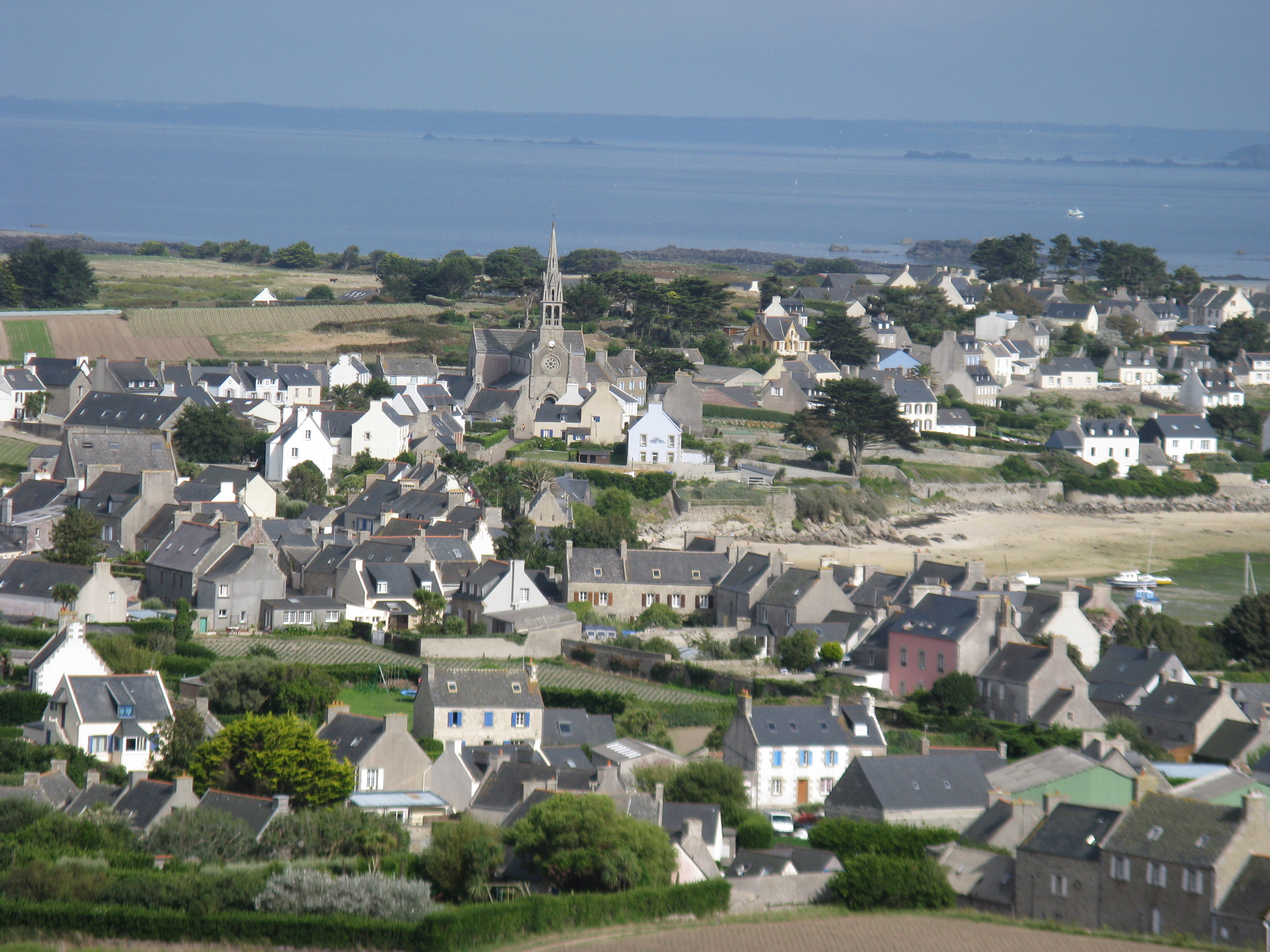 General overview of the Batz island from the top of the lighthouse